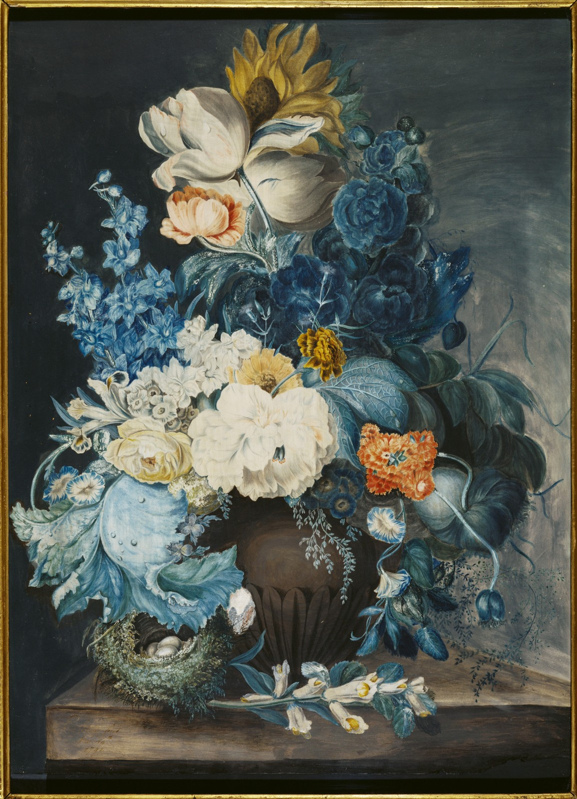 A group of flowers in a jar and a bird's nest, copy of a still life by the flower painter Margaret Meen, now in the Victoria and Albert Museum